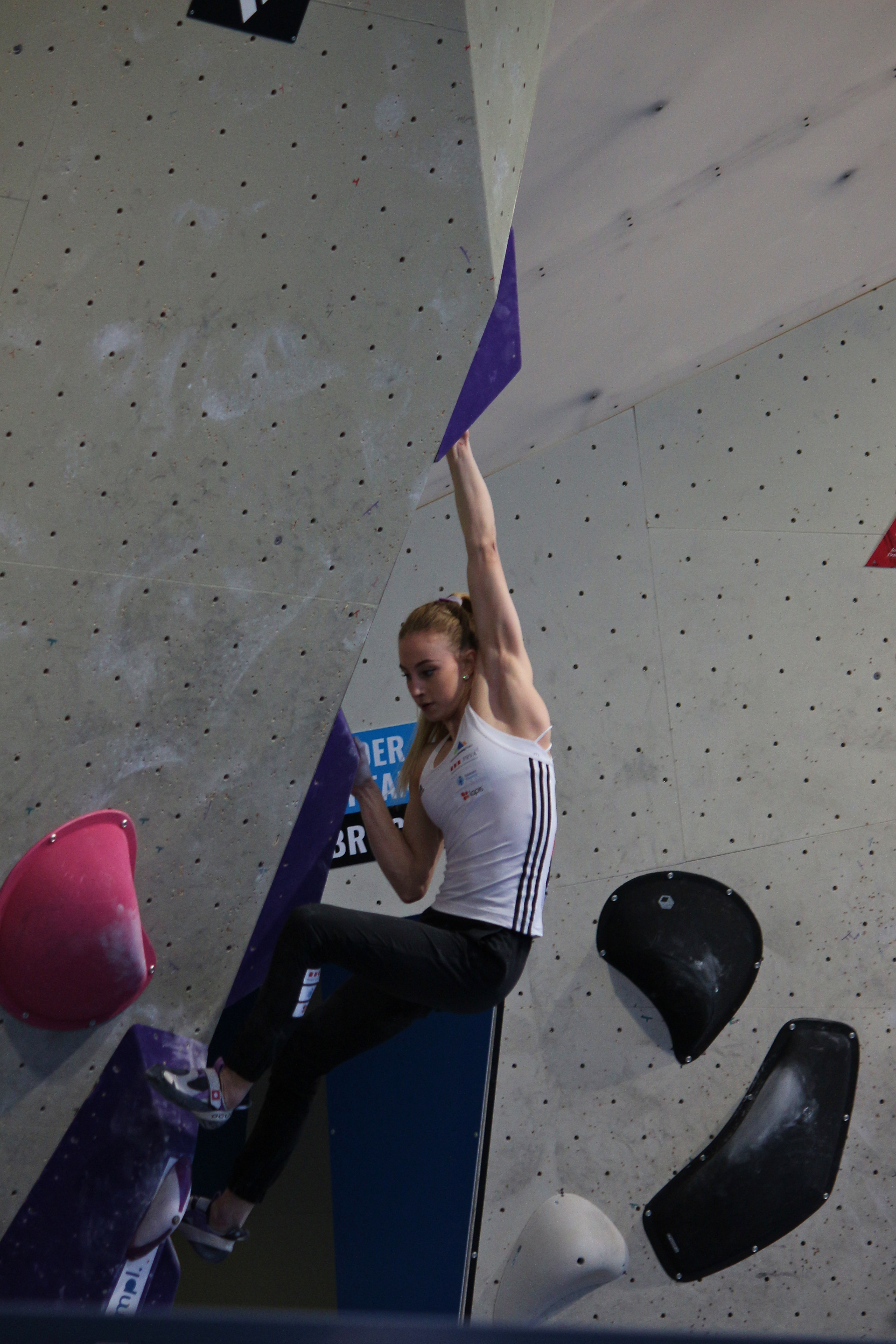 Urska Repusic